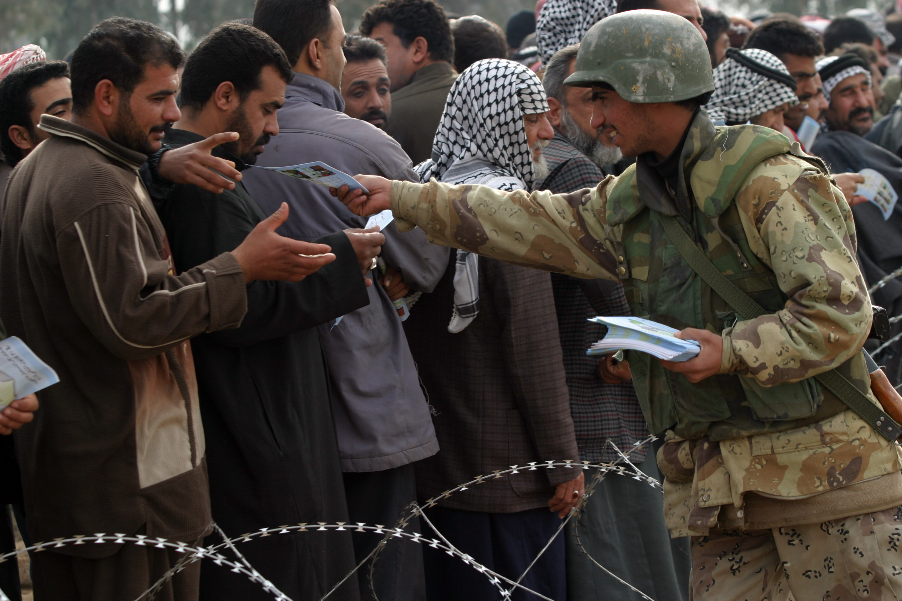 050130-M-7981G-058 Nasarwasalam, Iraq (Jan. 30, 2005) - Iraqi citizens come out in masses to vote in the first ever "Free Elections" in Iraq. Iraqi Security Force (ISF) and Marines from Kilo Company, 3rd Battalion, 8th Marines, provide security for the polling sites in Nasarwasalam, Iraq.